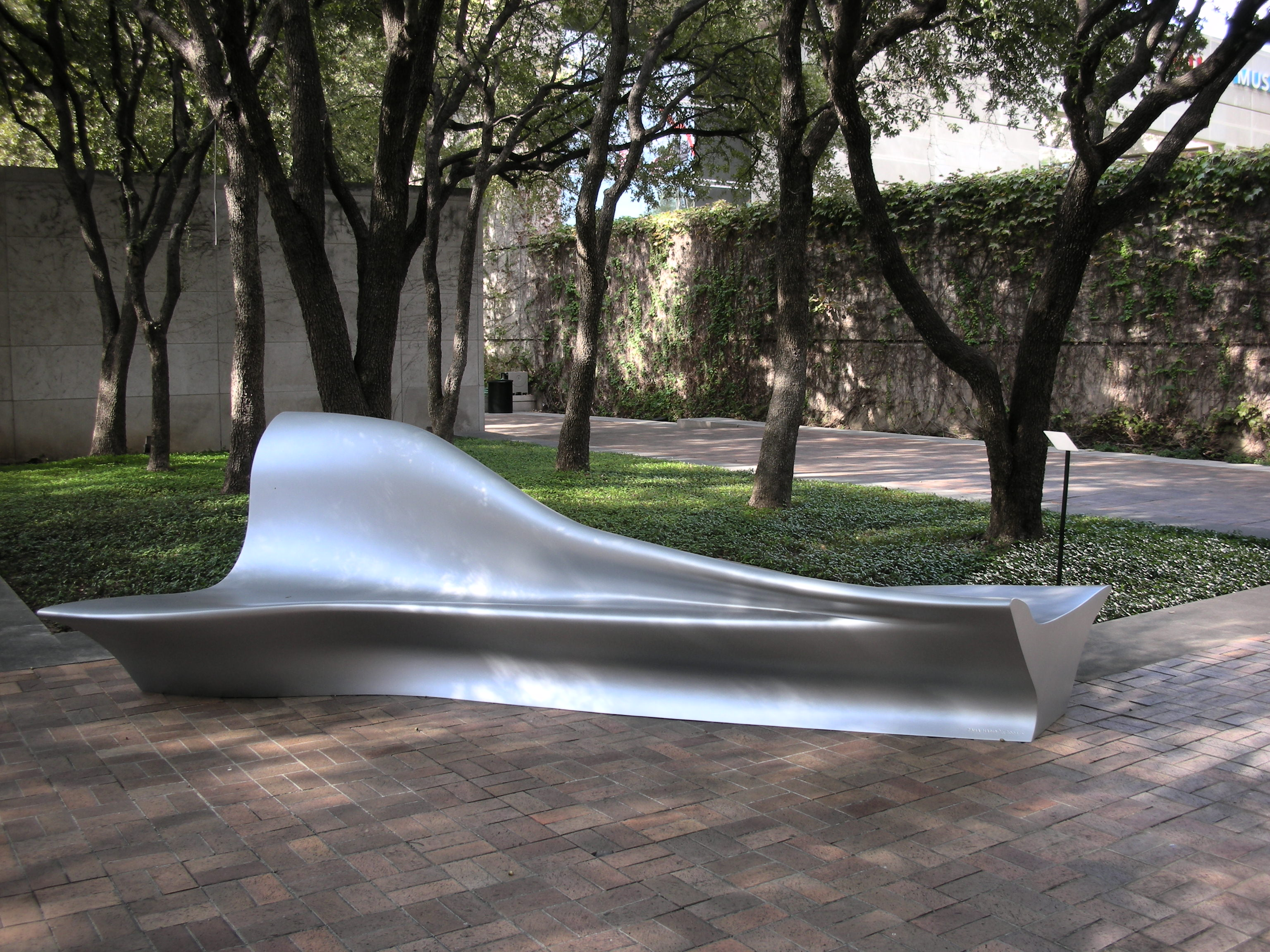 Dallas Museum of Art Bench, cast aluminum Designed 2003, executed 2006